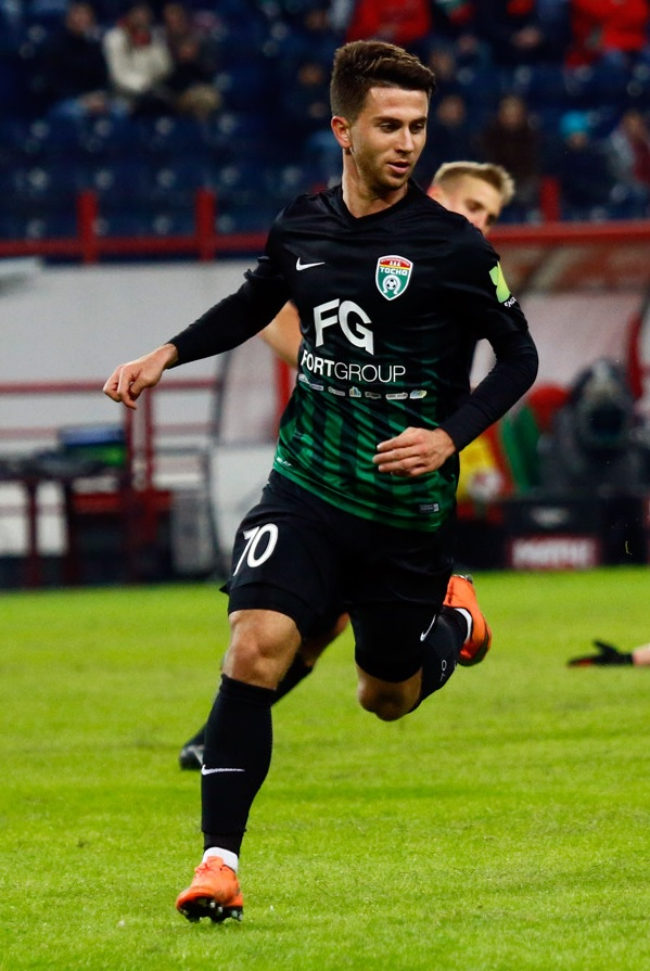 Dmitri Bogayev playing for FC Tosno against FC Lokomotiv Moscow in a Russian Cup game.